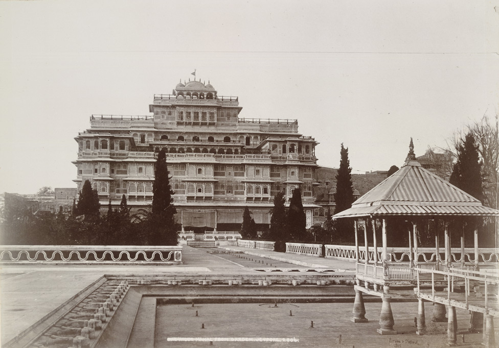 The Indur Mahal [Chandra Mahal] from the garden, Jeypore